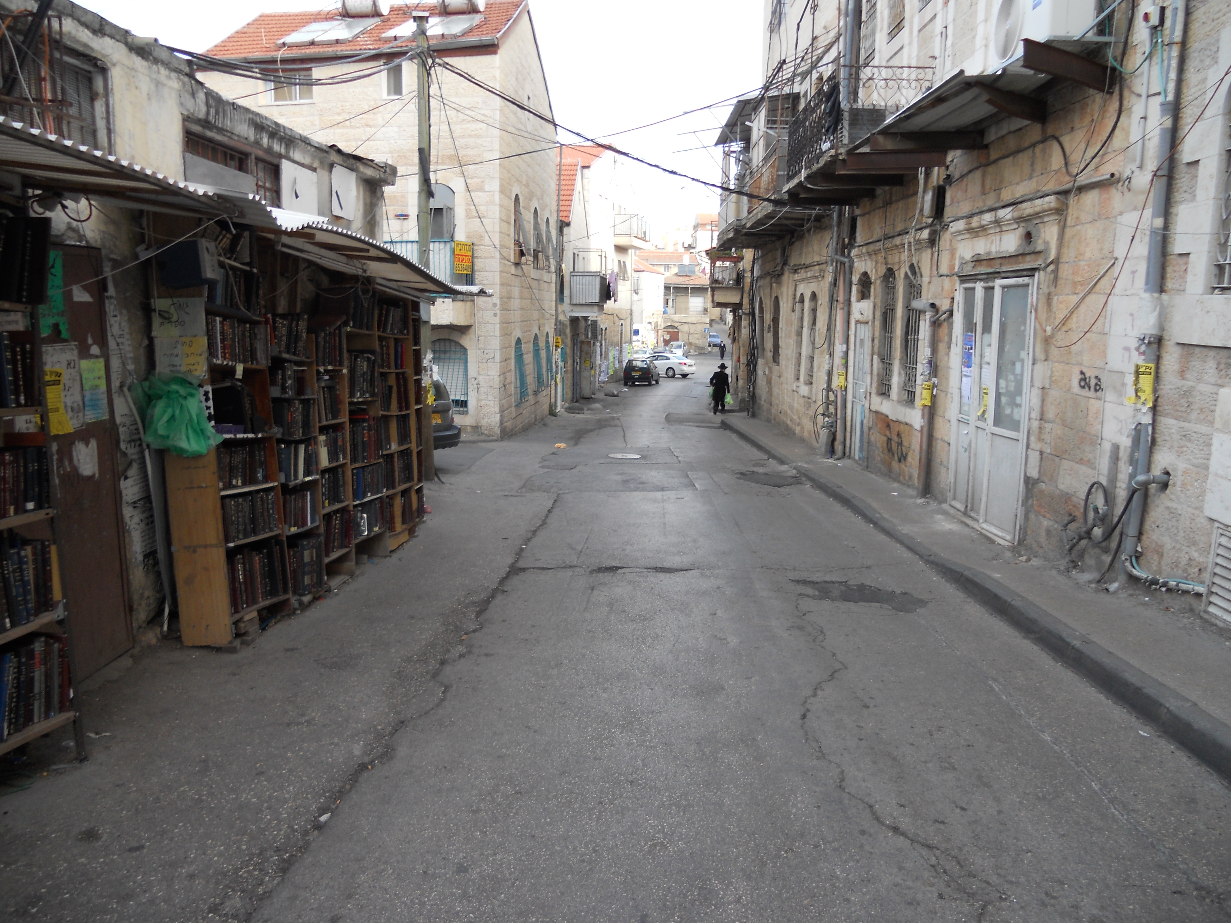 Jerusalem, Beit Yisroel, Ha-Rav Zonenfeld street - second hand books